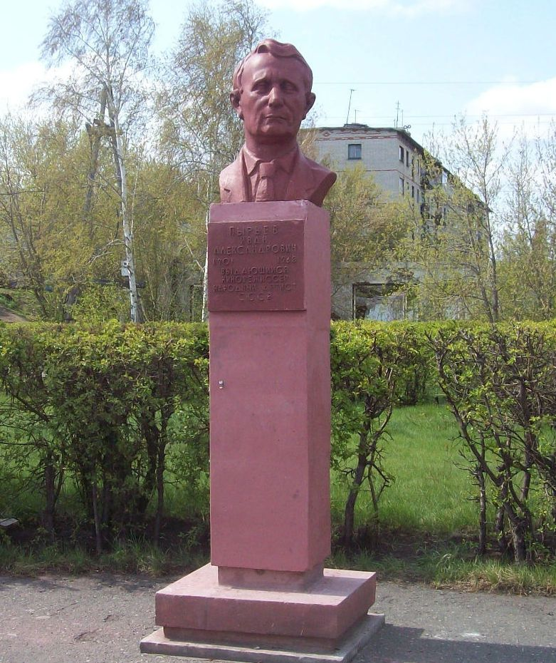 Monument of film director Pyryev in Kamen-na-Obi